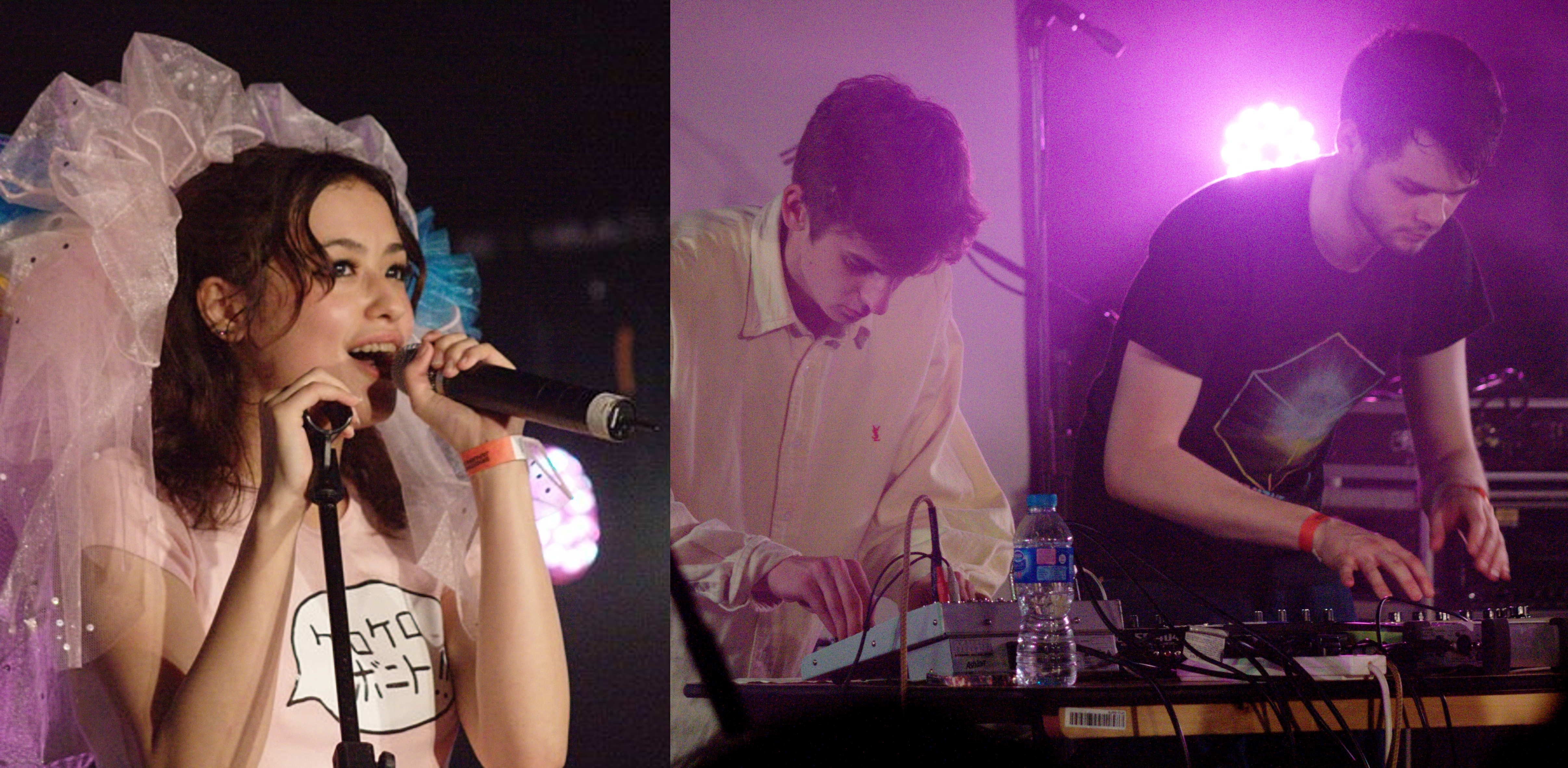 amalgamation of